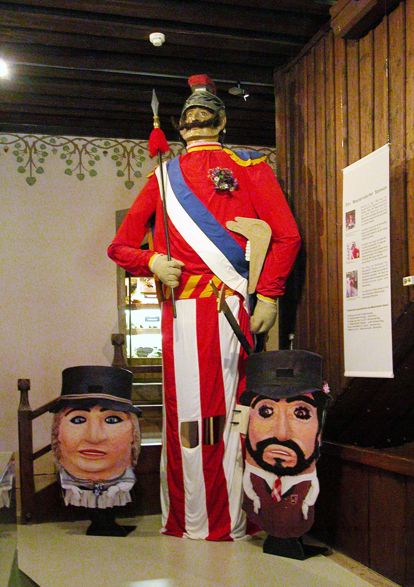 Giant Samson at Mauterndorf Castle, Austria